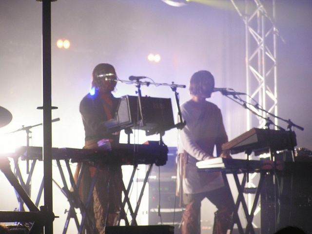 I took this photo of Royksopp at Fuji Rock, Naeba, Niigata, Japan, in the summer of 2005. I am putting it here in the wiki commons for people to freely use as they like. Other versions